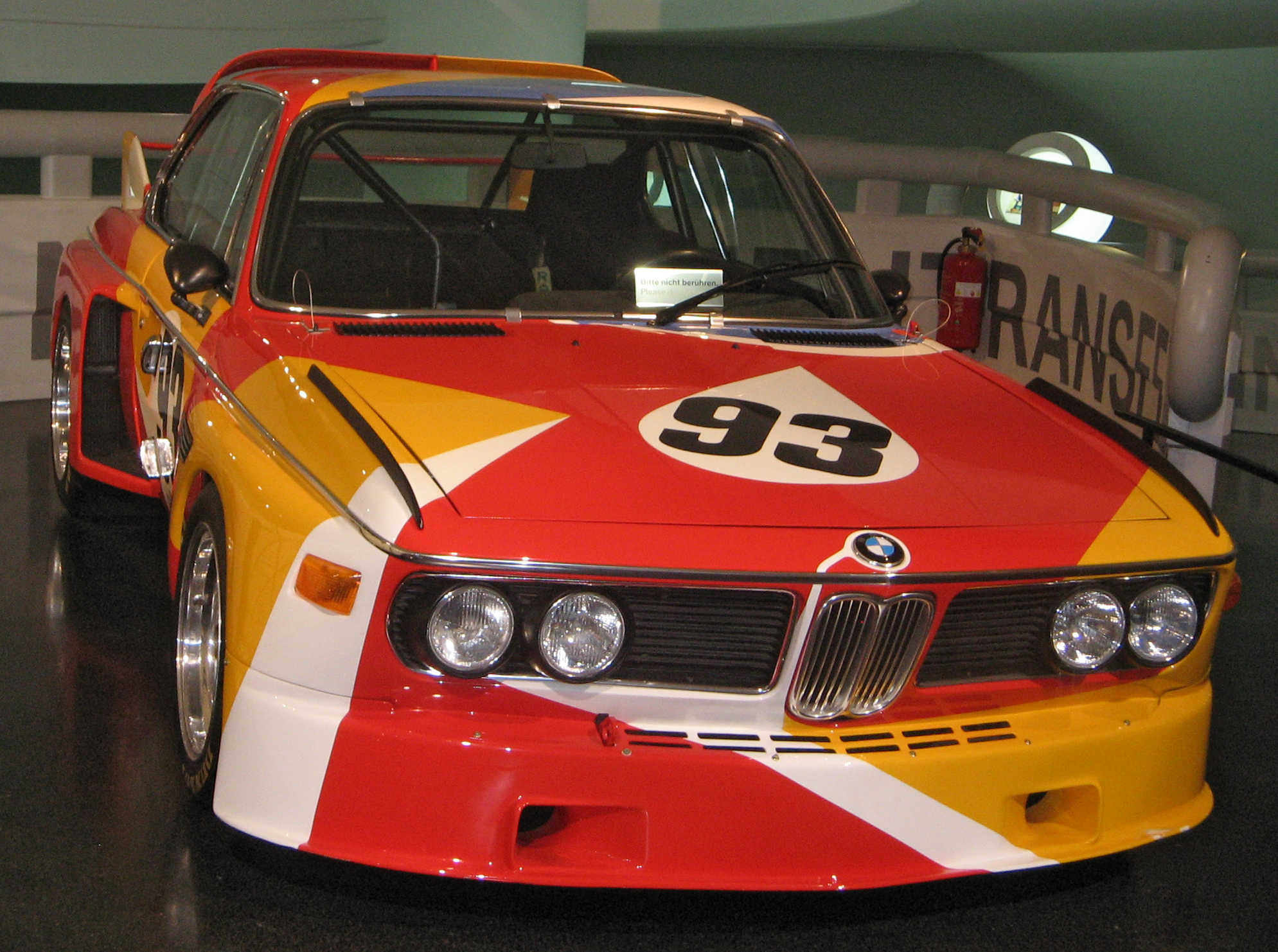 BMW Art Car (BMW 3.0 CSL) designed by Alexander Calder at BMW Museum Munich